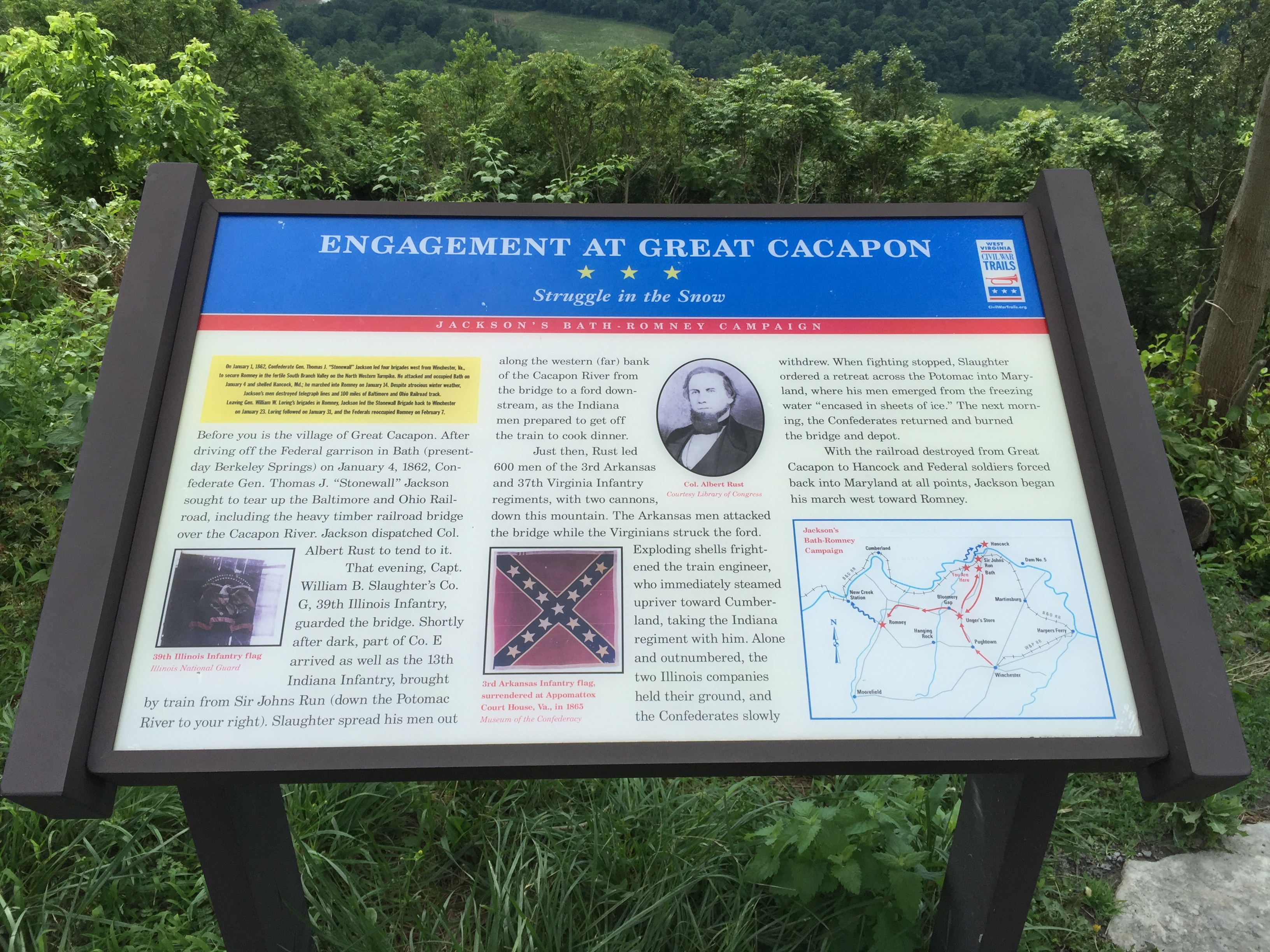 "Engagement at Great Cacapon" descriptive sign at the Prospect Peak Overlook in northwestern Morgan County, West Virginia